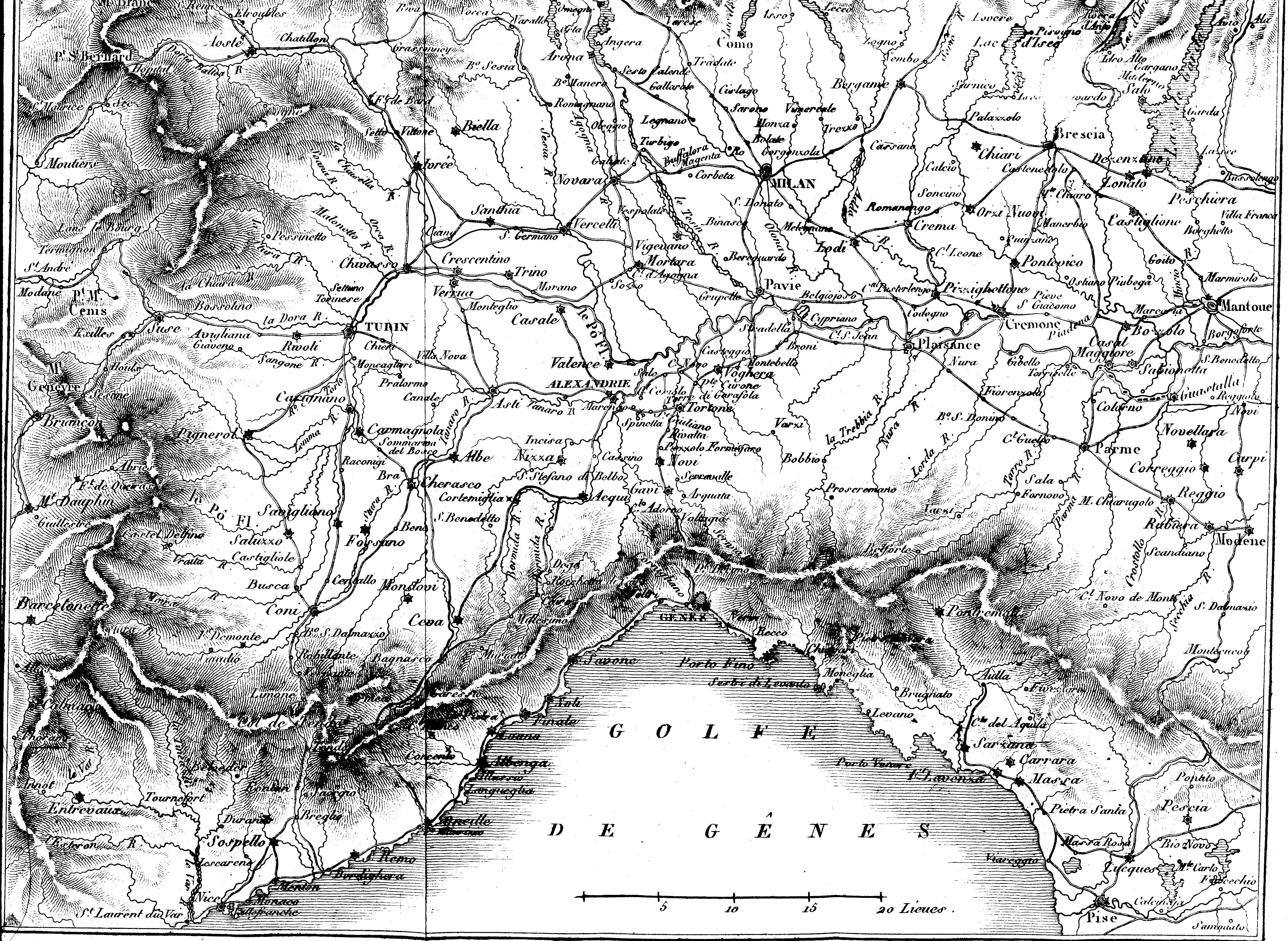 map of Genoa's gulf